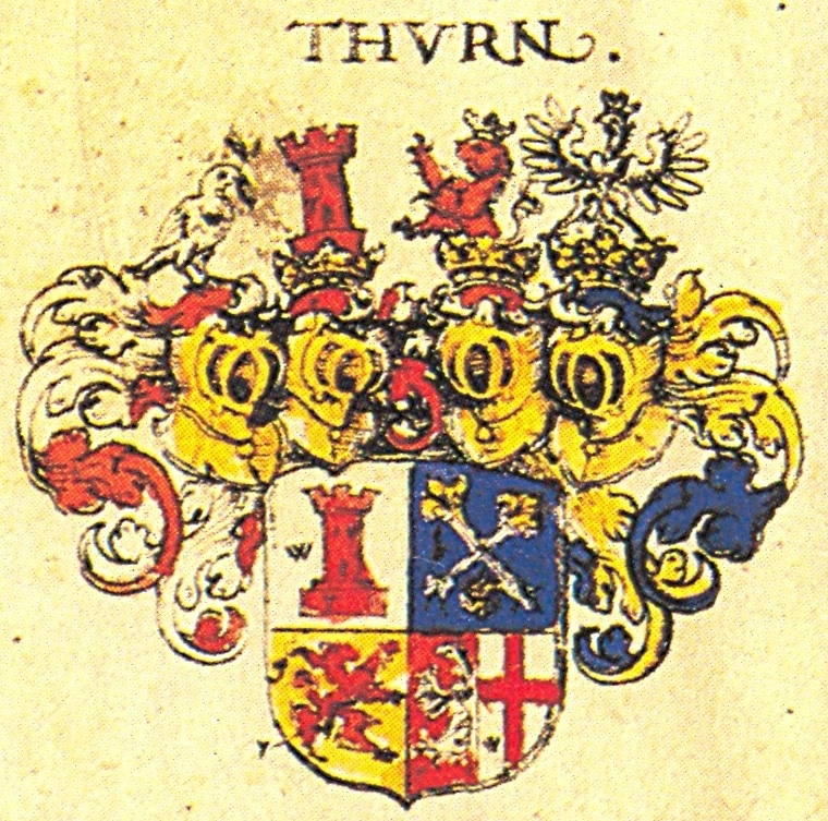 Coat of arms of Thurn